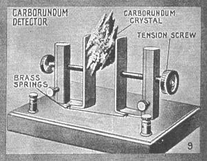 The Carborundum Detector, discovered by General H. H. C. Dunwoody, U.S.A.